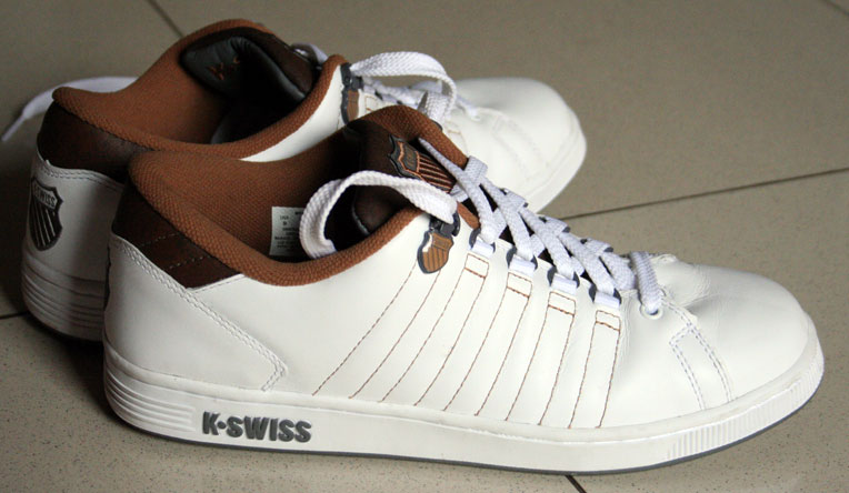 A pair of K-Swiss Lozan II shoes.